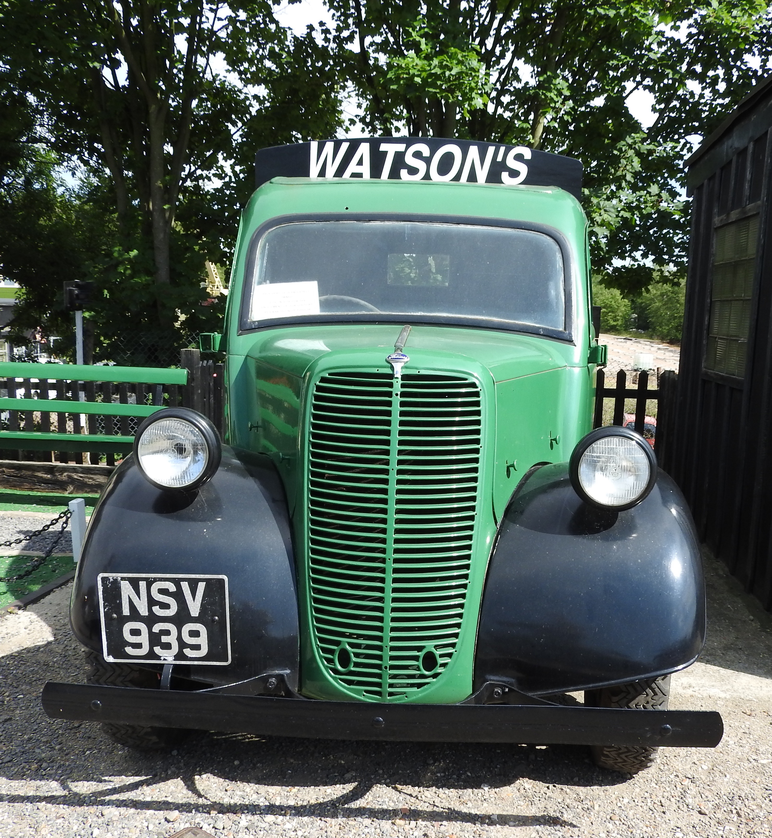 East Anglian Railway Museum, Chappell & Wakes Colne station, Essex